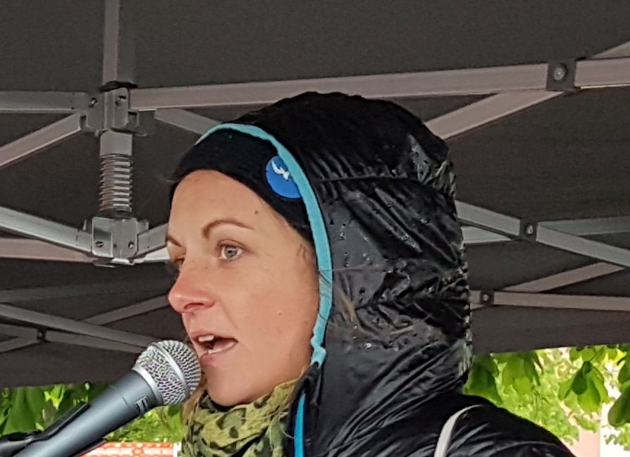 Pia Klemp as a speaker at the 19th Sunday demonstration in Vorarlberg. On 5.5.2019 in Bregenz. About 1000 people gathered for a demonstration. To protect the depicted people from right-wing extremists, who are now in government in Austria, and from the Austrian Ministry of the Interior, the persons in the pictures had to be anonymized, even if they had agreed to a publication of the pictures.